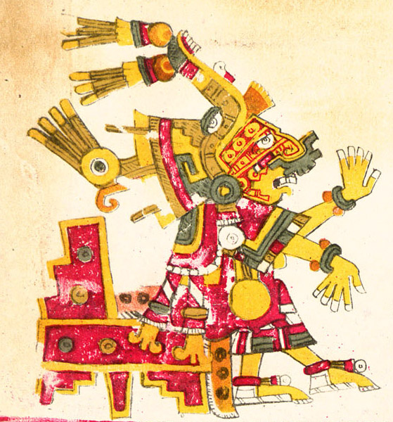 A drawing of Xochiquetzal, one of the deities described in the Codex Borgia